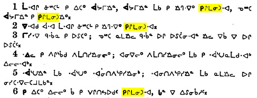 John 1:1-6 in Cree syllabics, Kicemanito highlighted in yellow